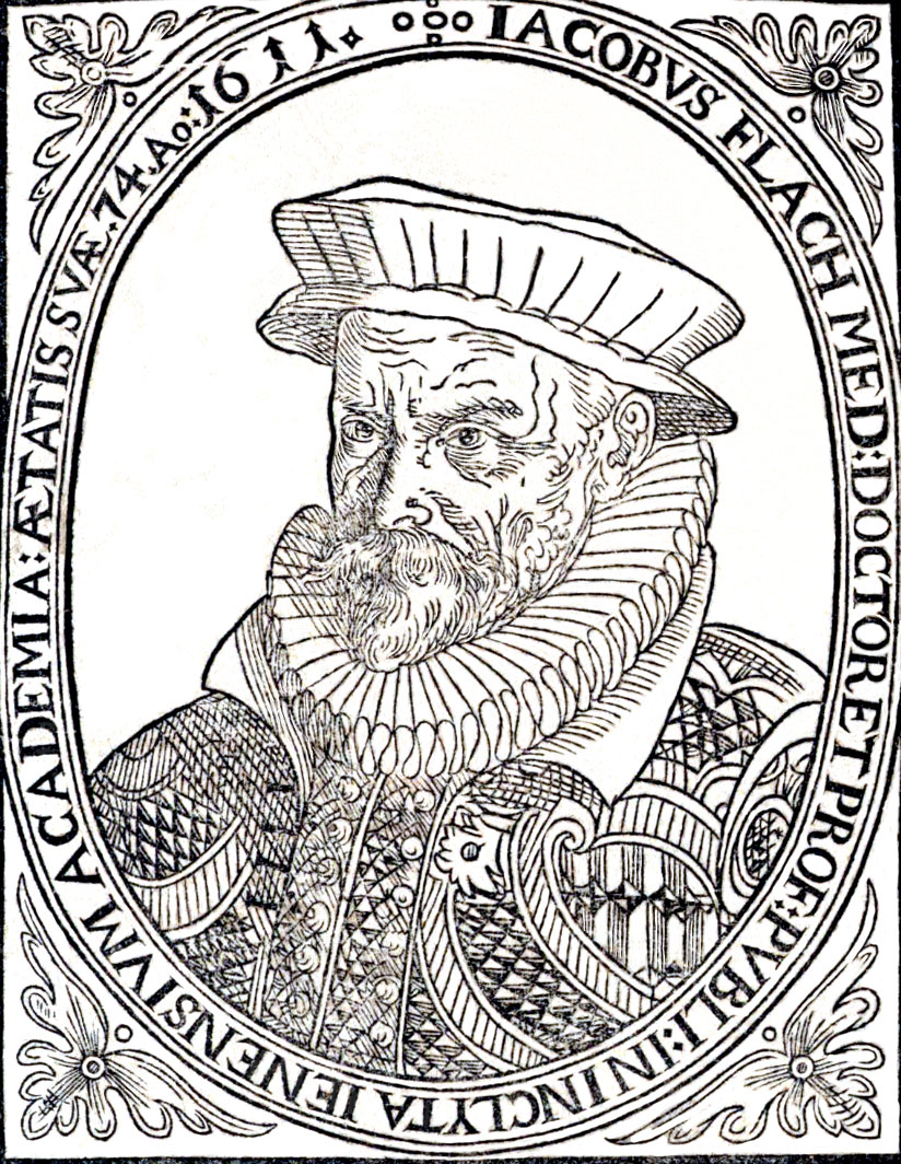 Jacob Flach (1537-1611), German Mathematician, Physician and Botanist